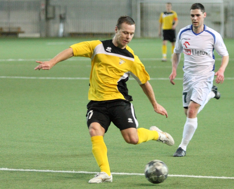 Artūras Rimkevičius (yellow shirt) in a game between Vėtra Vilnius and FK Mažeikiai.